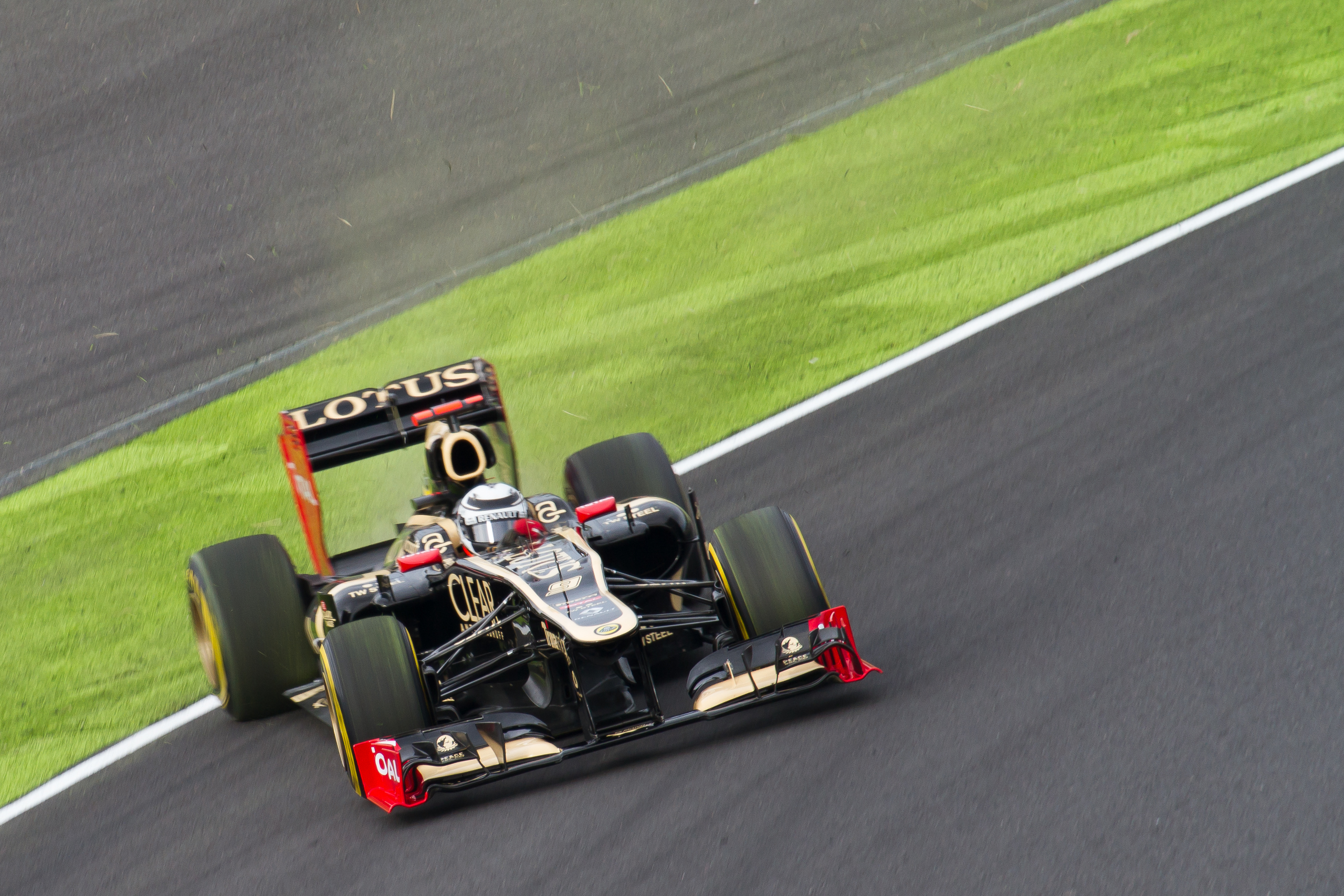 Formula One 2012 Rd.15 Japanese GP: Kimi Räikkönen (Lotus) spun at Spoon Curve in the final minutes of Qualify 3.